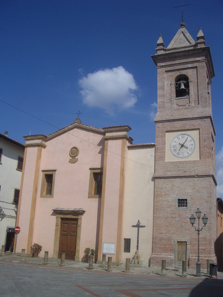 San Regolo Church in Montaione (Province of Florence), Italy